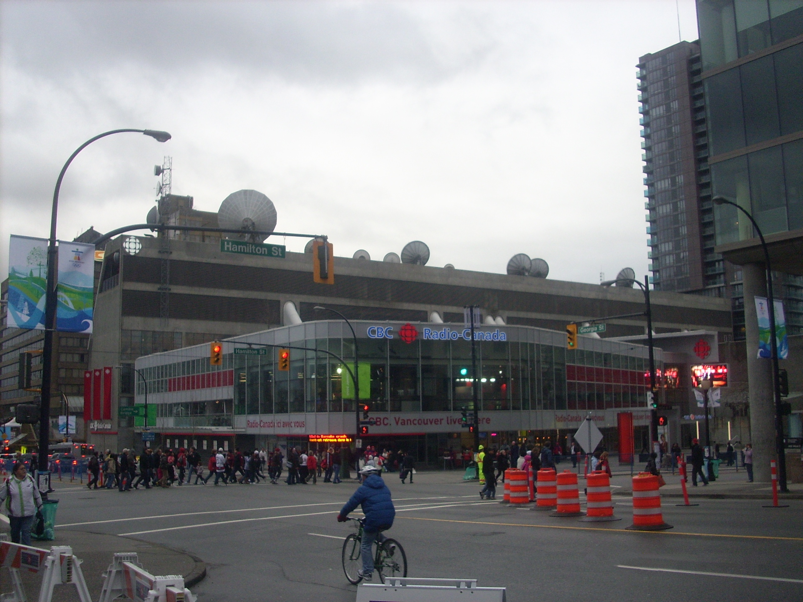 CBC Regional Broadcast Centre Vancouver photographed in Vancouver, British Coumbia, Canada at the 2010 Winter Olympics.